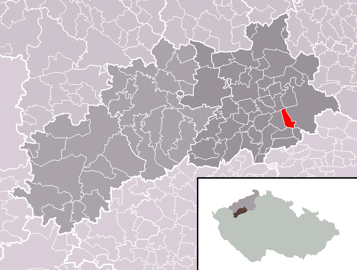 Location of Vrbno nad Lesy municipality within Louny District and administrative area of Louny as a Municipality with Extended Competence.